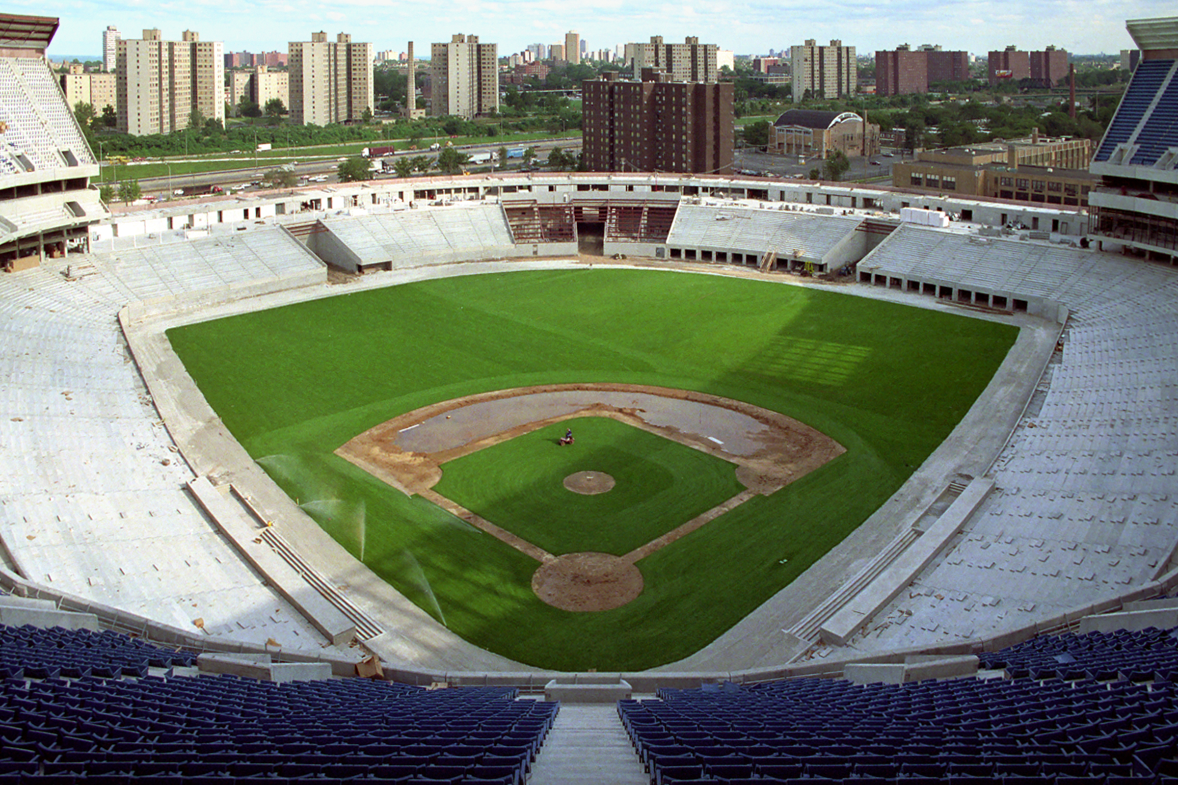 Taken is September 1990 from the last seat in the upper deck looking to an unfinished center field. The Sox played their first game in Comiskey Park 2 (changed to U.S. Cellular Field in 2003) on April 18, 1991 vs. the Detroit Tigers.